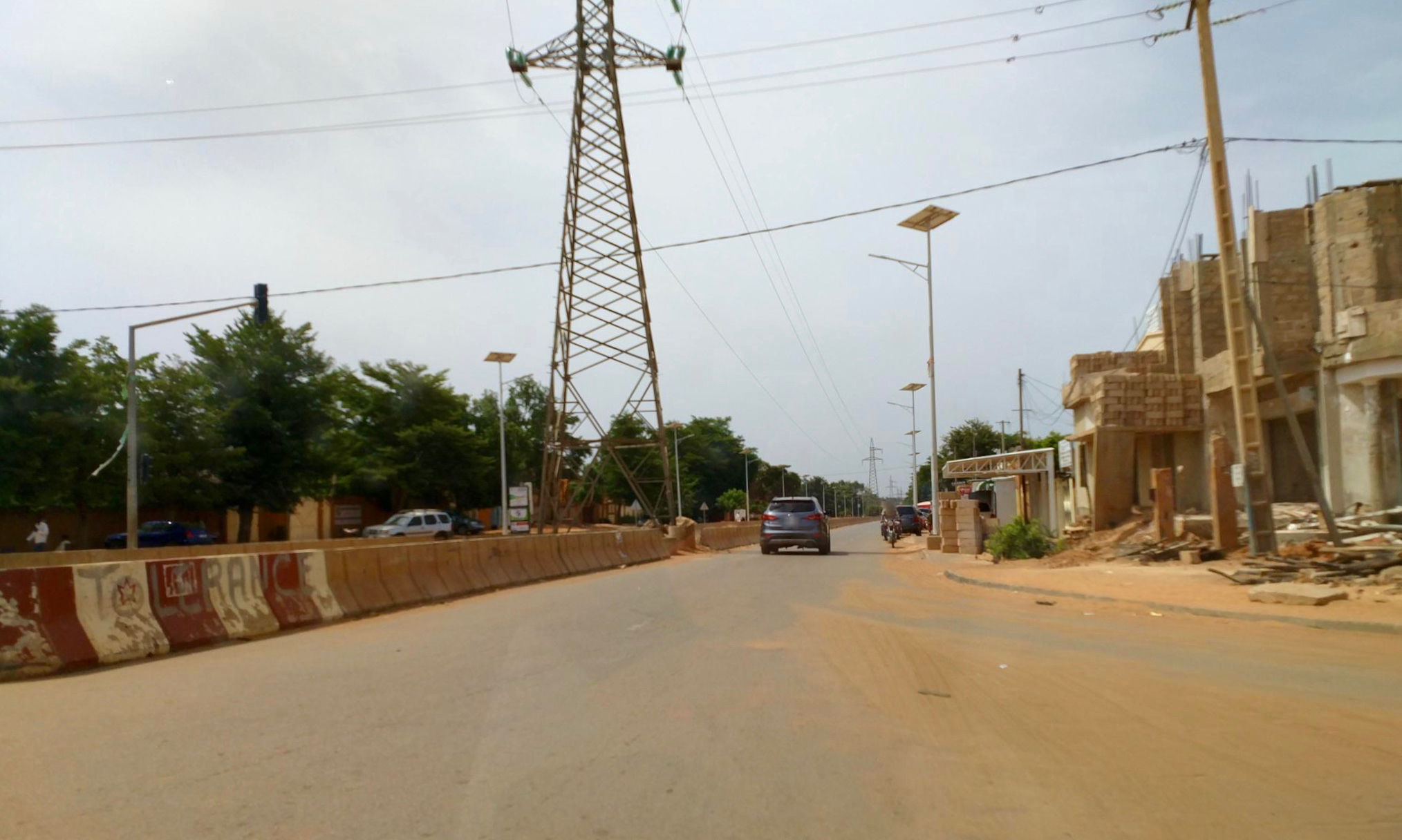 Boulevard Askia Mohamed in Koira Kano, Niamey.